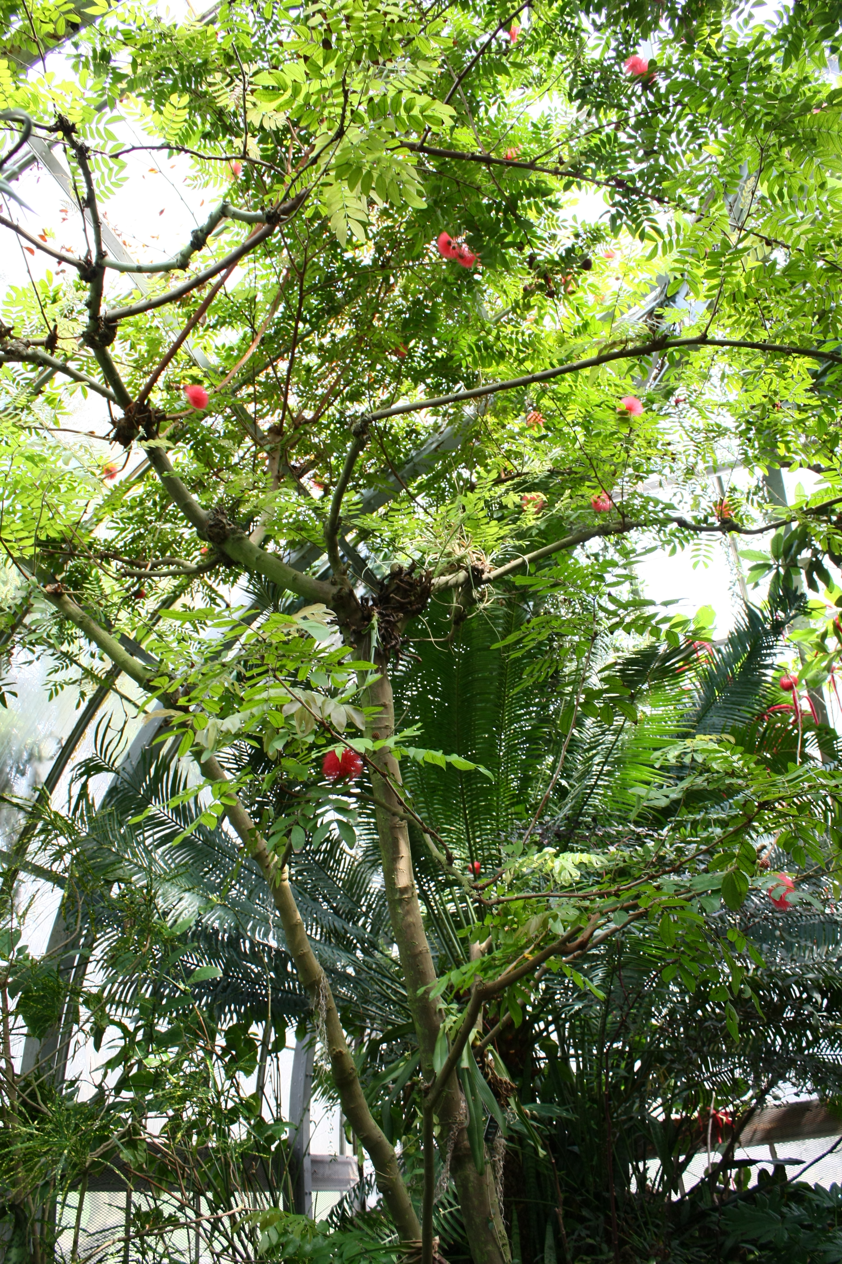 Calliandra haematocephala at the Krohn Conservatory in Cincinnati, OH.